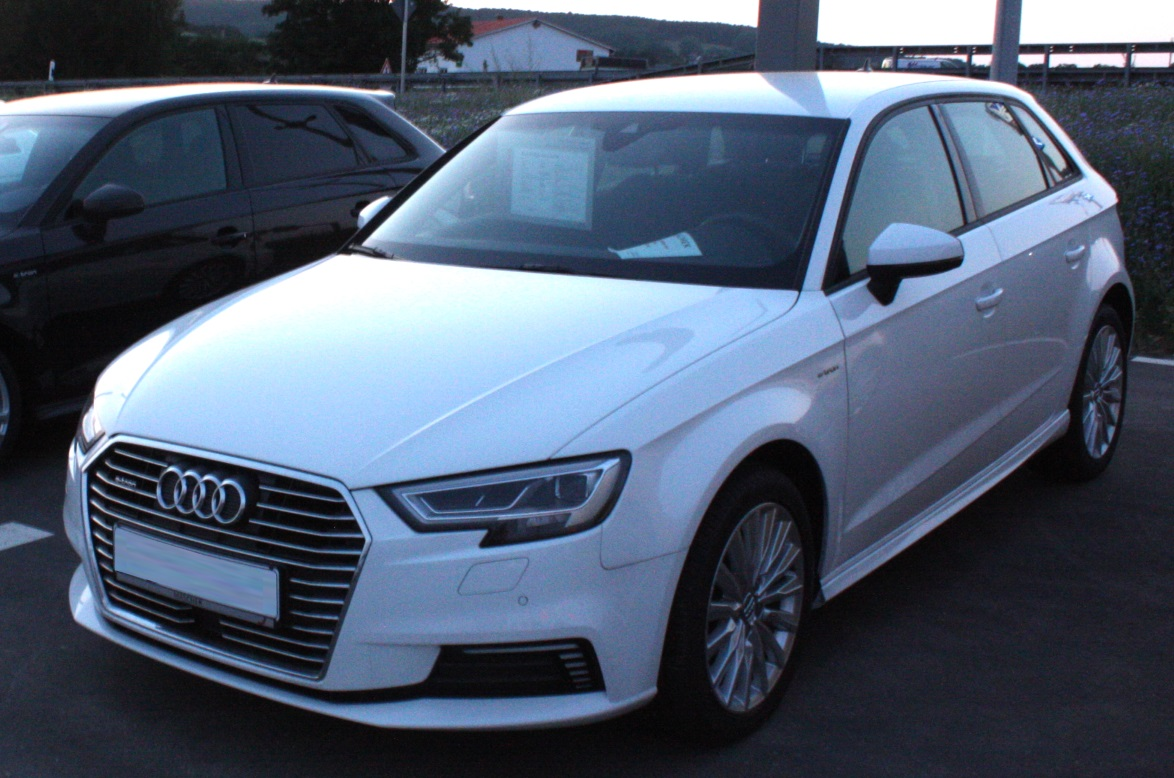 2018 Audi A3 E-Tron Facelift